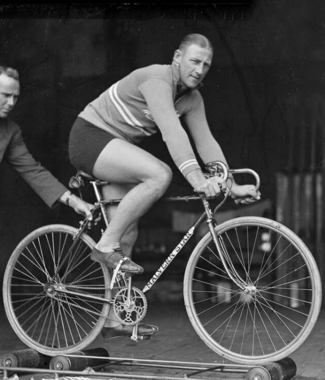 Bobby Pearce training for the Empire Games on his Malvern Star bicycle with assistance from a man, New South Wales, 24 June 1930